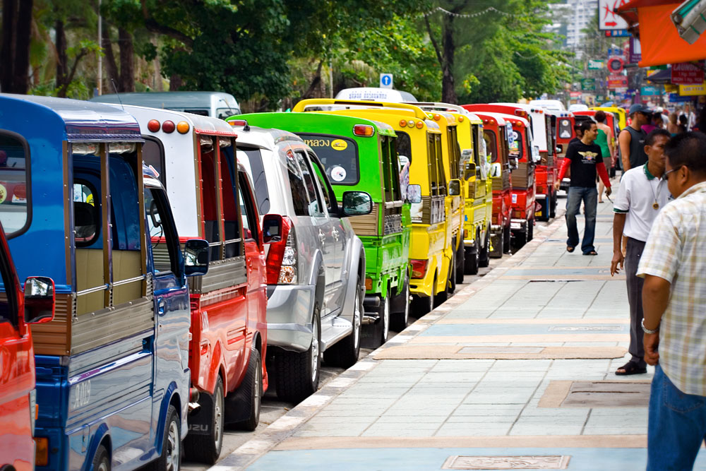 a row of Tuk-Tuks on Thawiwong Road, Patong Beach, Phuket, Thailand